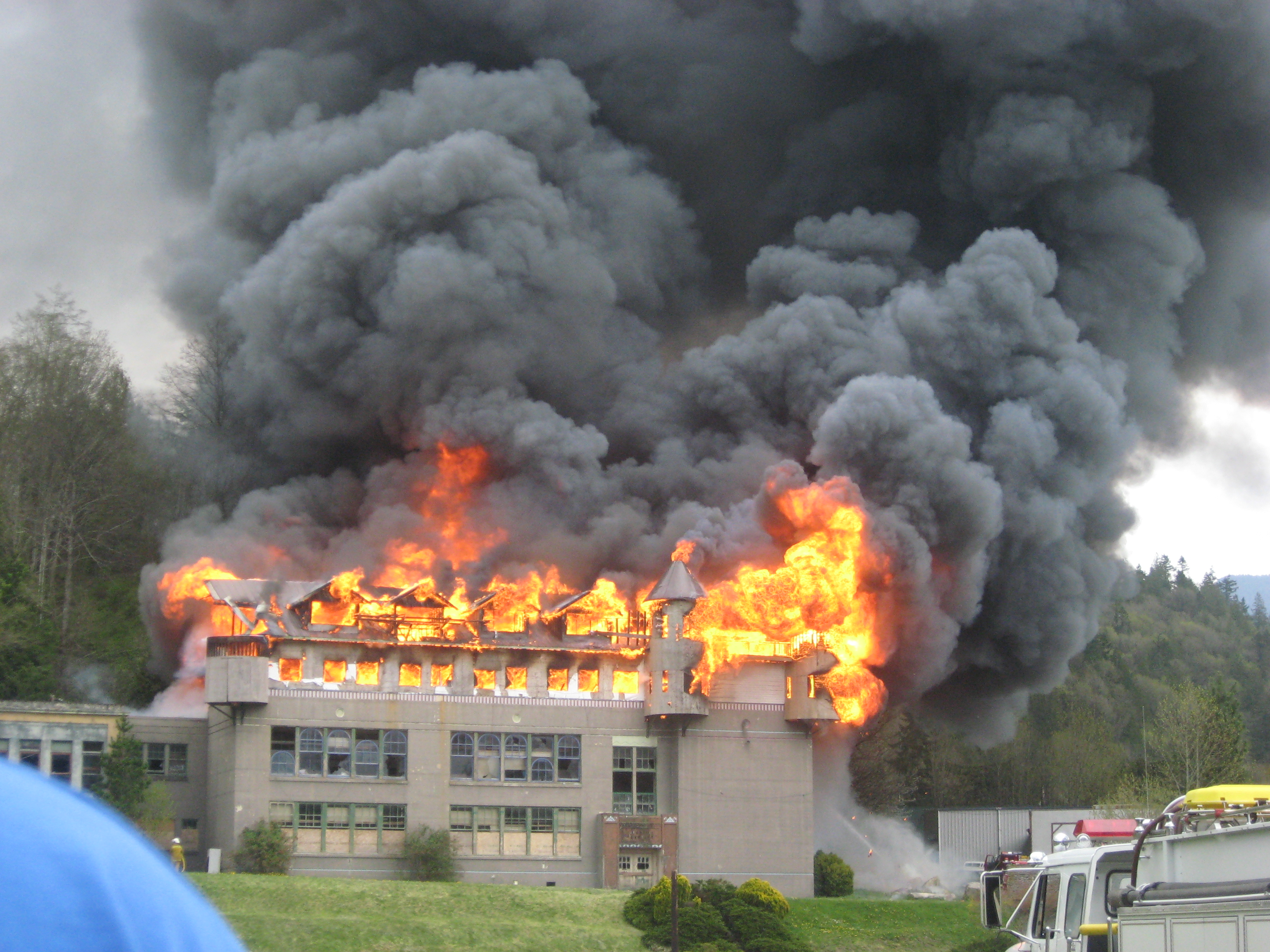 Picture of the historic 'Old School' in Concrete, WA burning down.